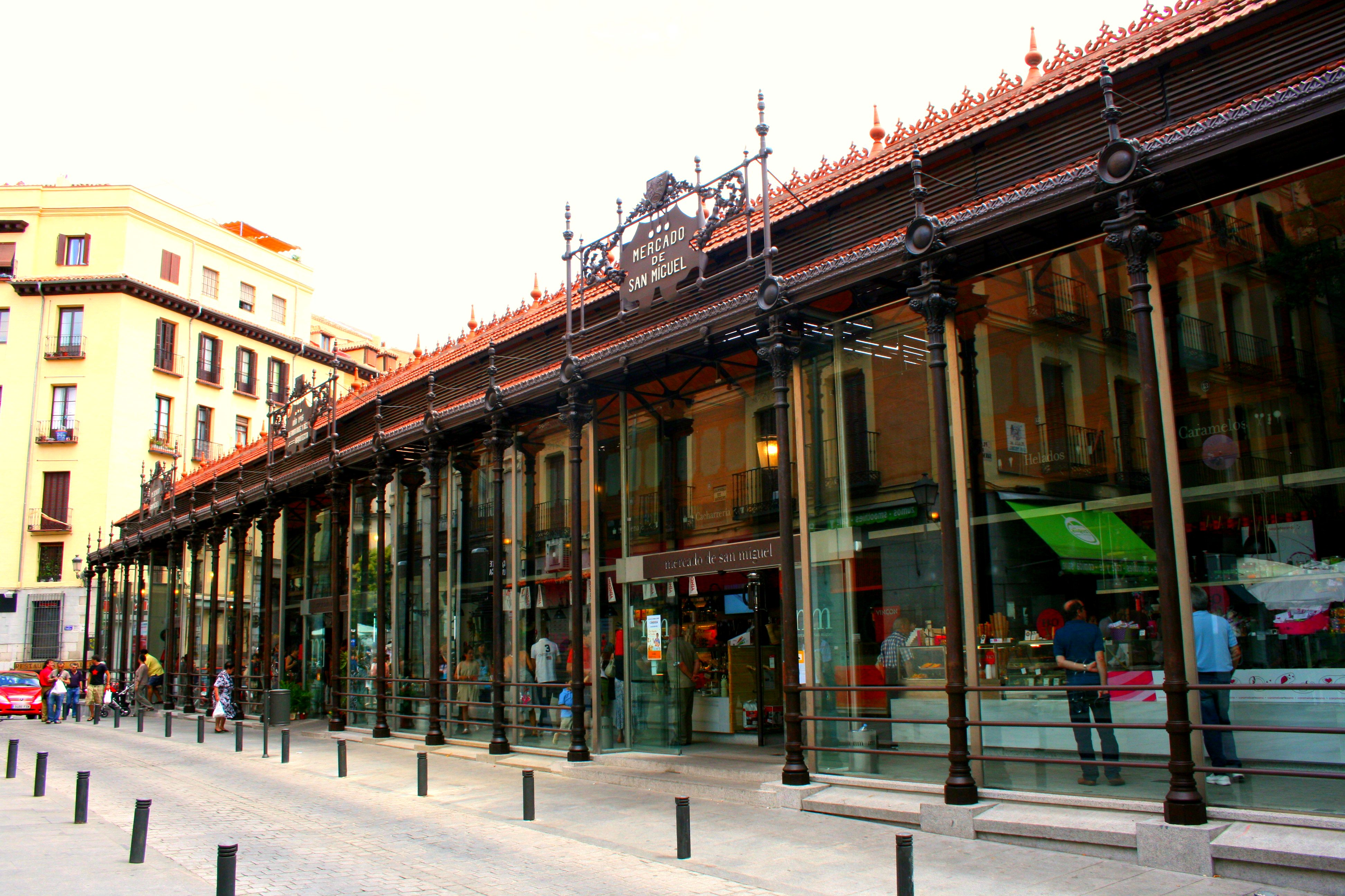 Mercado de San Miguel (a market) in Madrid (Spain).